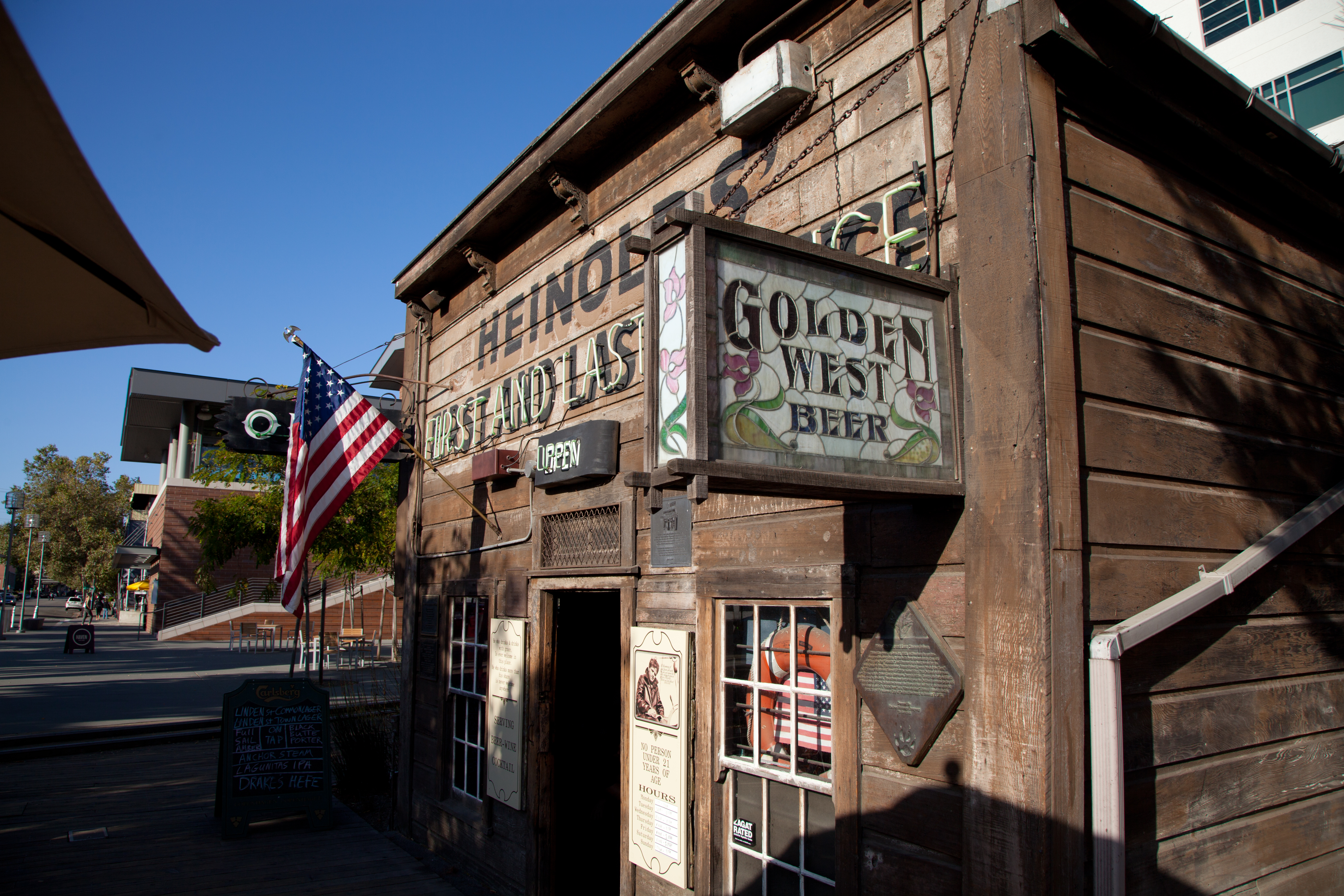 Heinold's First and Last Chance Saloon